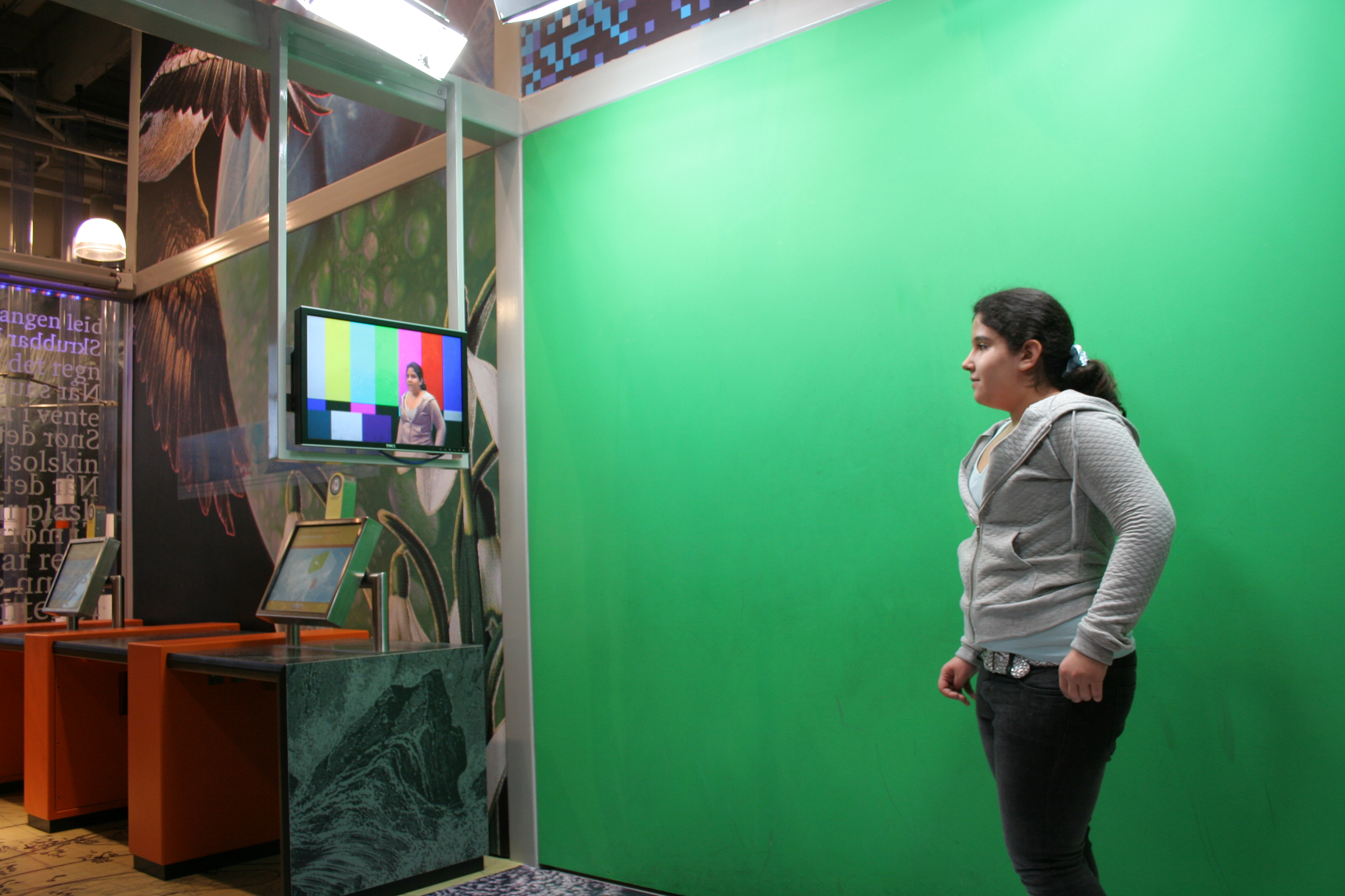 A girl waiting to create her own weather forecast - the green wall behind her is the 'bluescreen', while she is able to se her own movements related to the weather map on the screen to the left showing the colours.